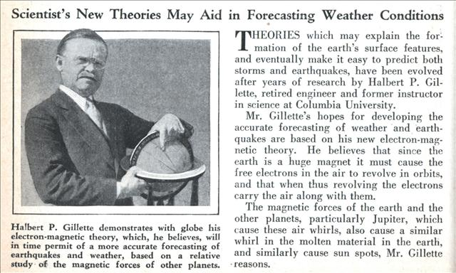 1930s article about Halbert Powers Gillette